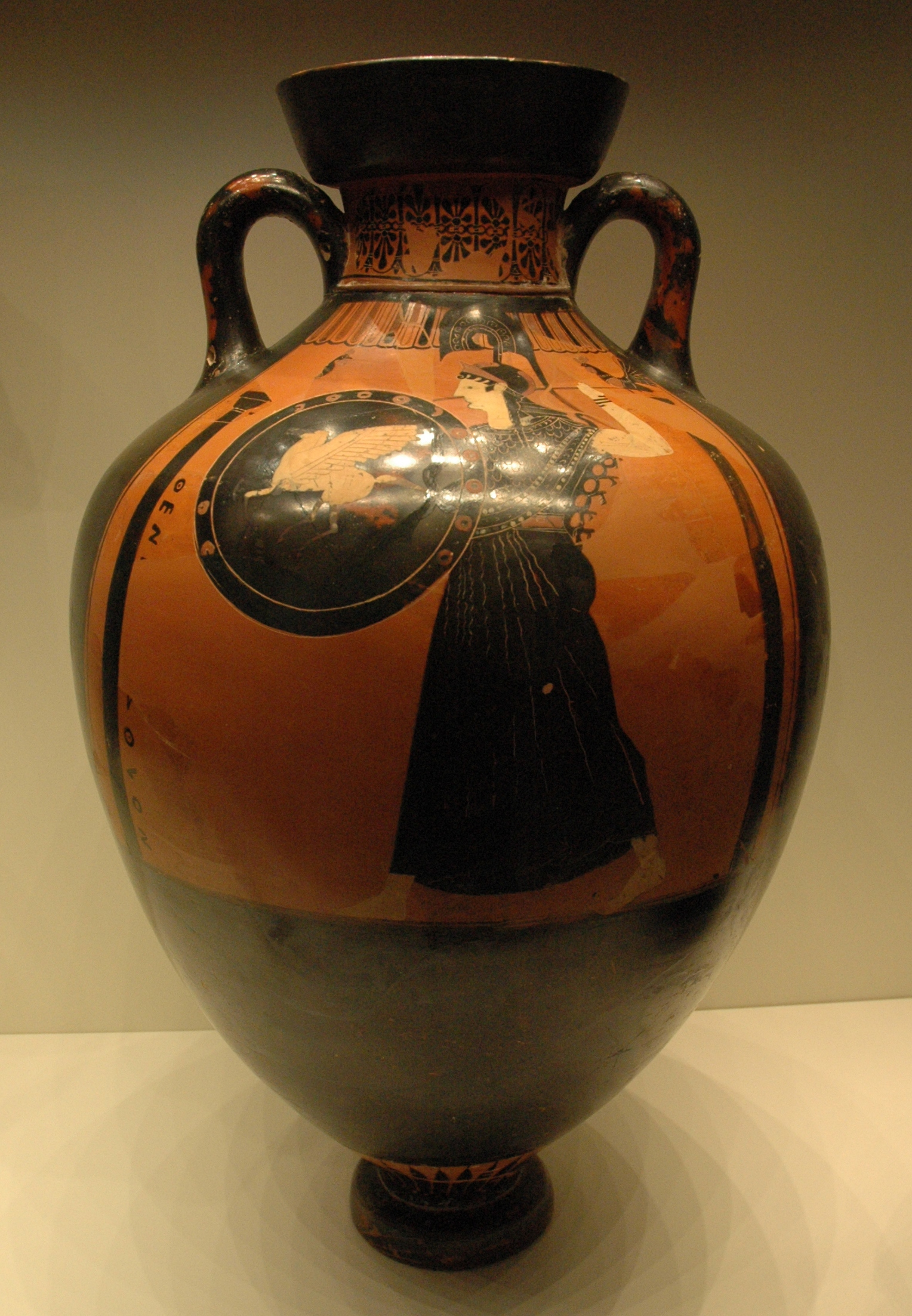 Attic black-figure panathenaic amphora.